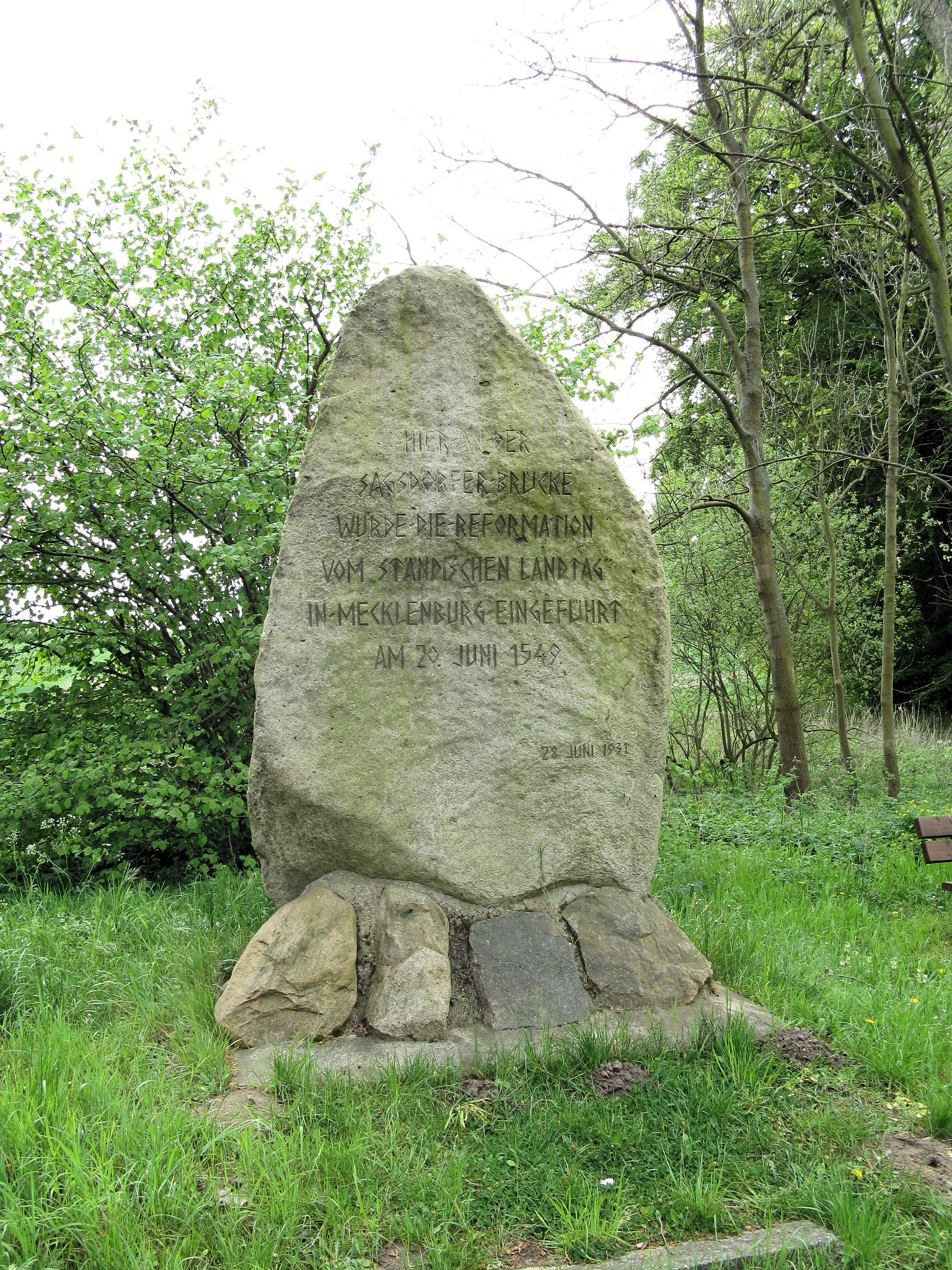 Memorial of the Protestant Reformation in Sagsdorf, disctrict Ludwigslust-Parchim, Mecklenburg-Vorpommern, Germany